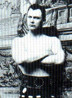 William Muldoon was a professional wrestler greatly considered to be America's first world wrestling champion.